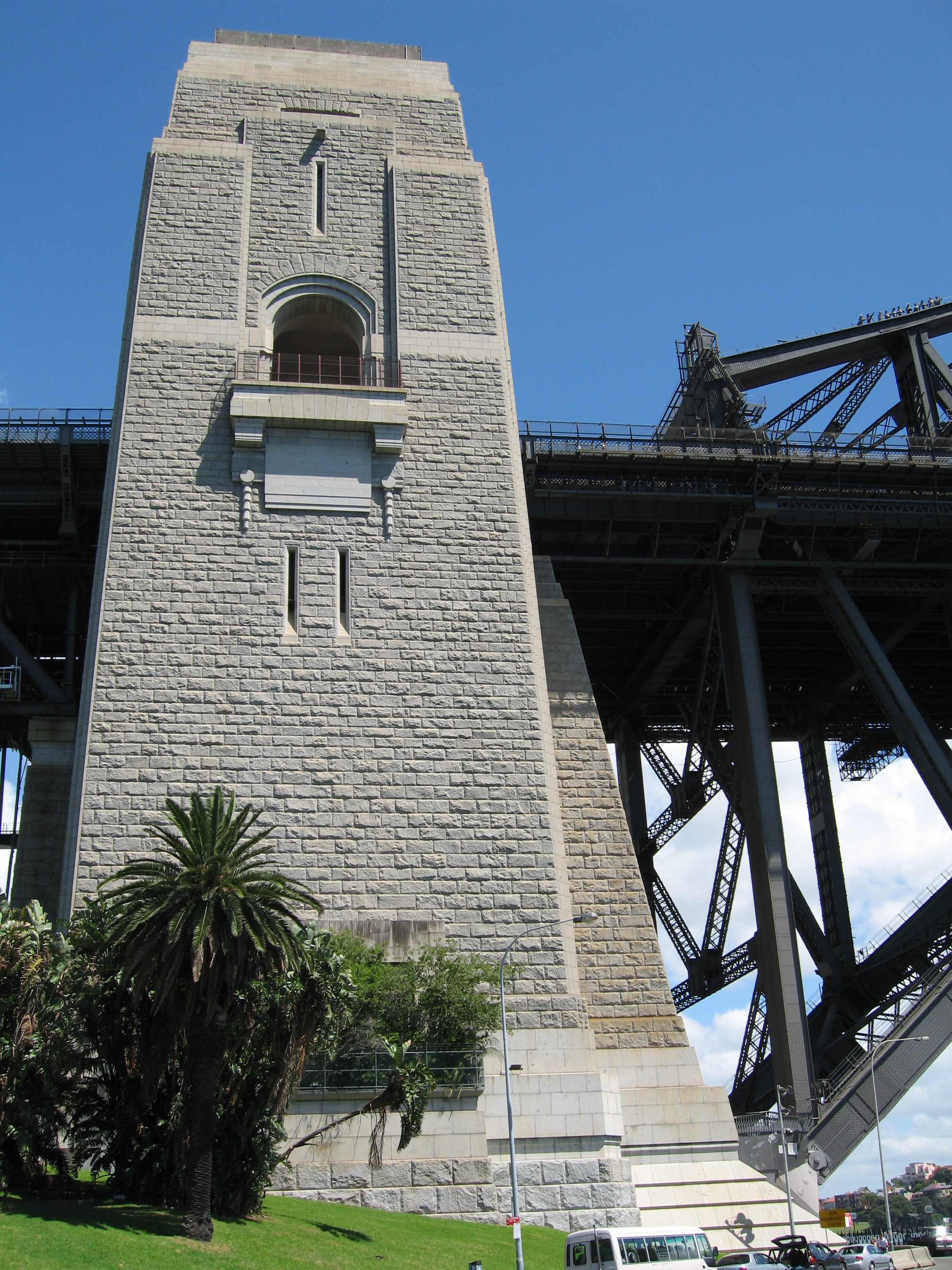 Dawes Point pylon of the Sydney Harbour Bridge, Sydney, Australia. A group of 11 people can be seen walking on the upper arch in the top right of the frame.